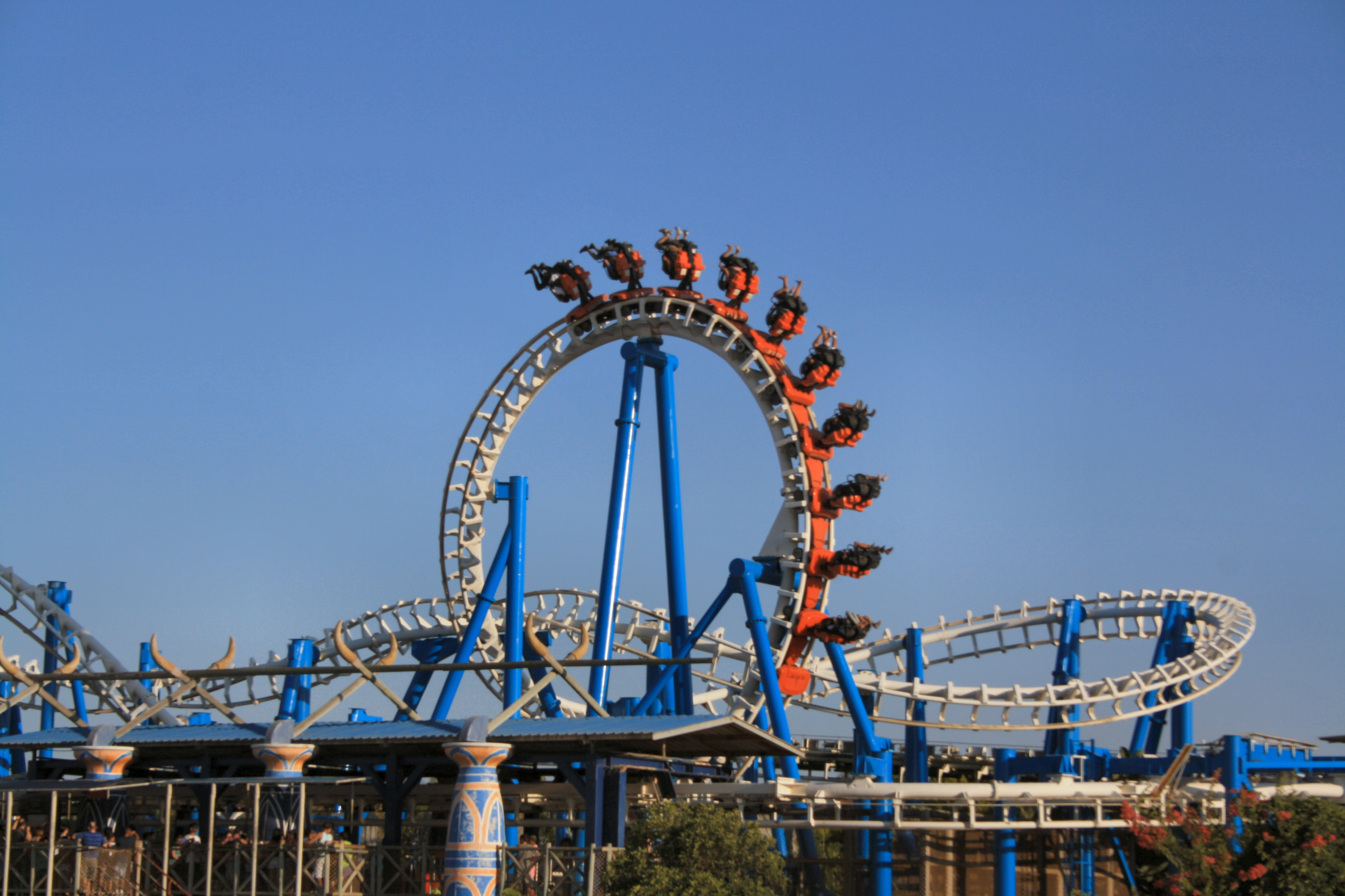 "Kumba" - Suspended Looping Coaster SLC 689m, Superland, Rishon Lezion.